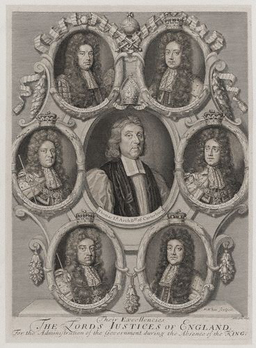 "Their Excellencies the Lords Justices of England, for the administration of the Government during the absence of the King": William Cavendish, 1st Duke of Devonshire (1640-1707) Charles Sackville, 6th Earl of Dorset (1638-1706) Sidney Godolphin, 1st Earl of Godolphin (1645-1712) Thomas Herbert, 8th Earl of Pembroke (1656-1733) Charles Talbot, 1st Duke of Shrewsbury (1660-1718) John Somers, Baron Somers (1651-1716) Thomas Tenison (1636-1715)